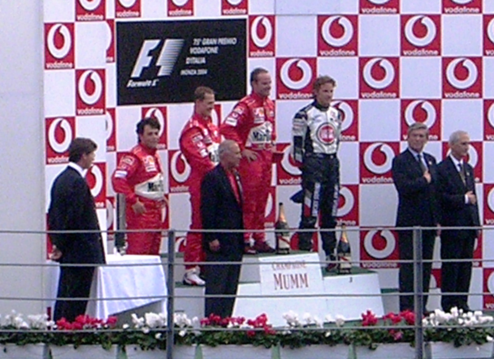 The Autrodomo Nazionale of Monza (italy) during a race in september 2004